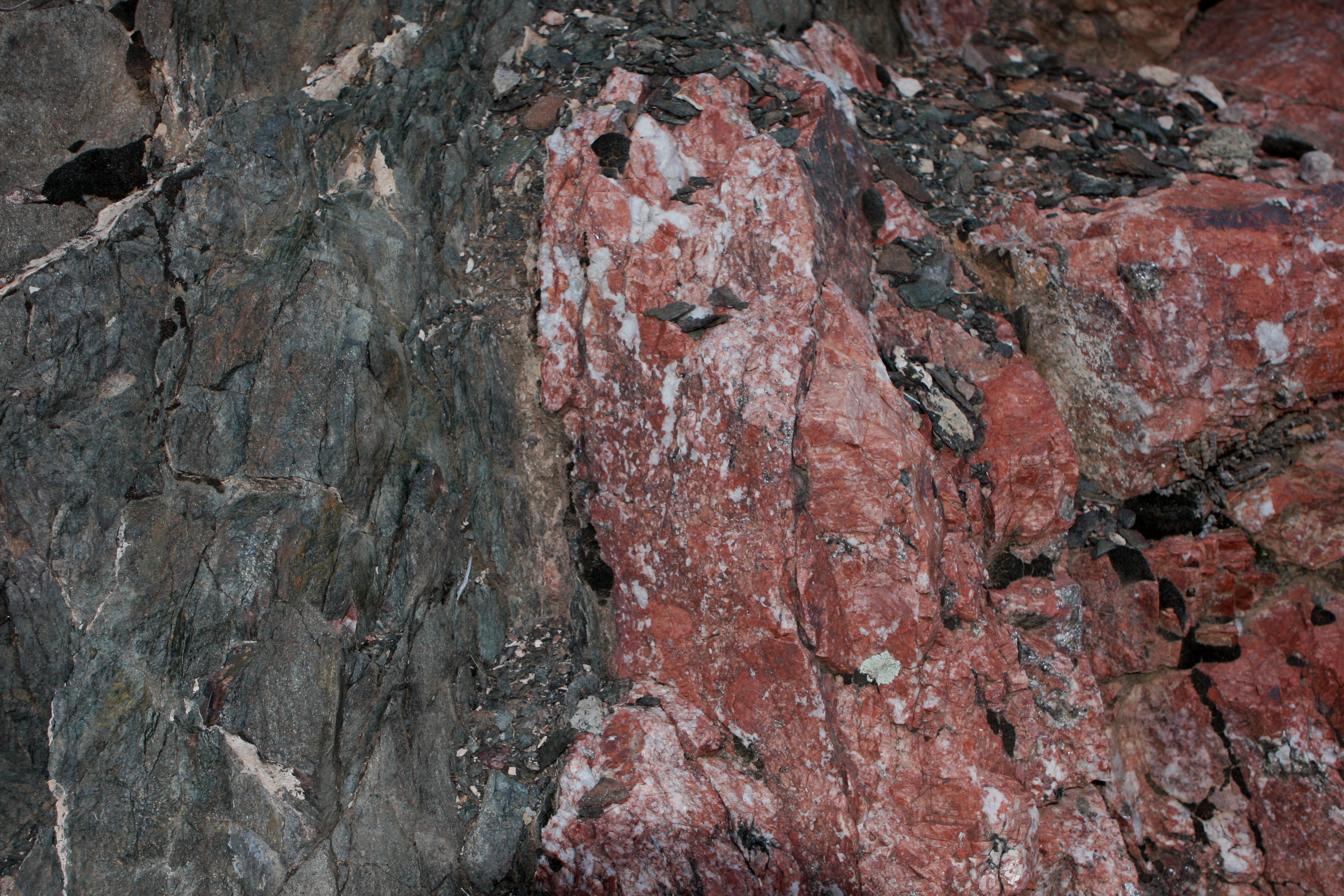 Clear Creek trail, Grand Canyon National Park gc 265